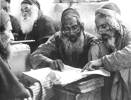 Group of Jewish elders, newly arrived from Yemen, study Torah in a synagogue in the land of Israel